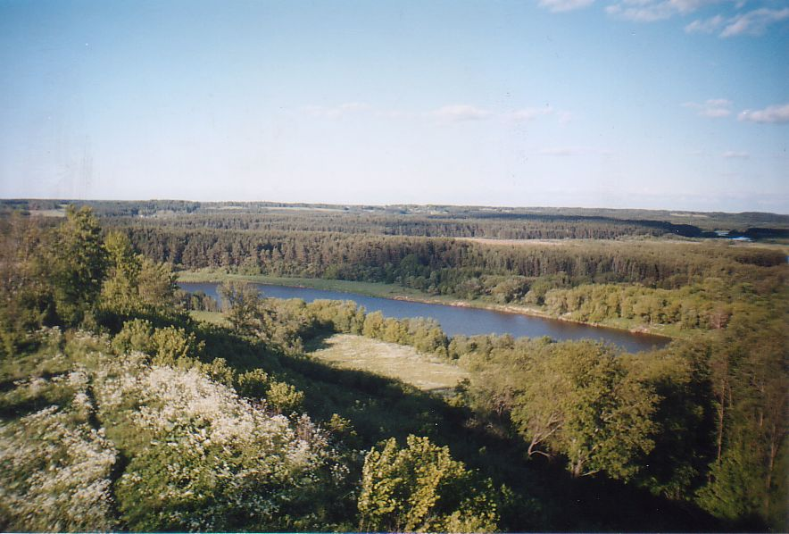 Budeliai hill fort